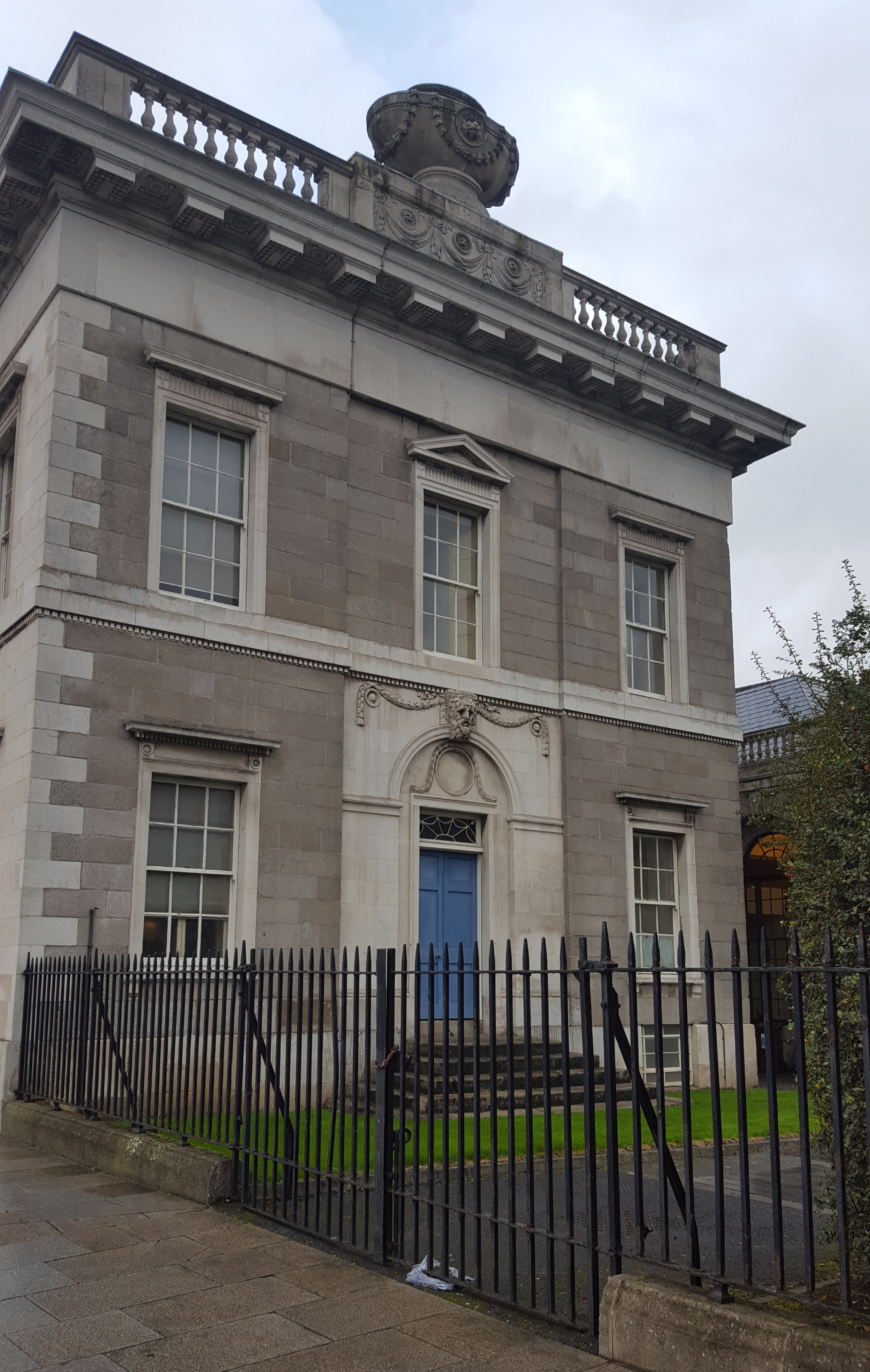 a depiction of the Slaney river on the east side of Dublin's Customs House